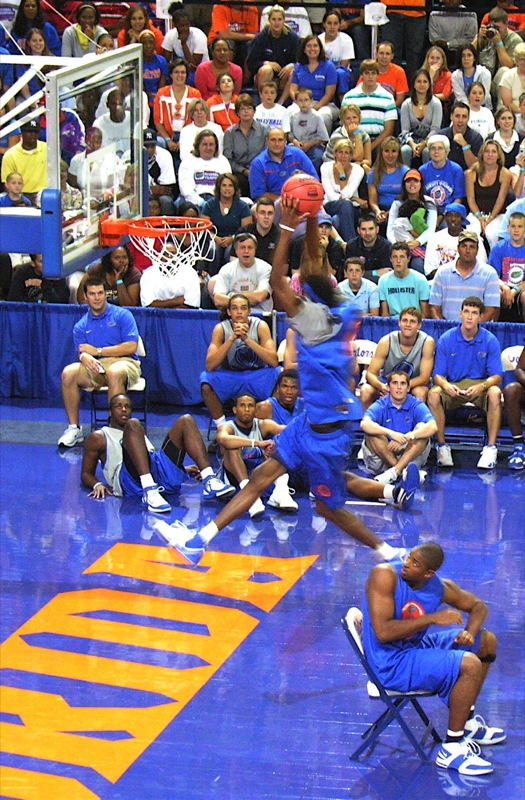 Corey Brewer at Midnight Madness (basketball) dunk exhibition